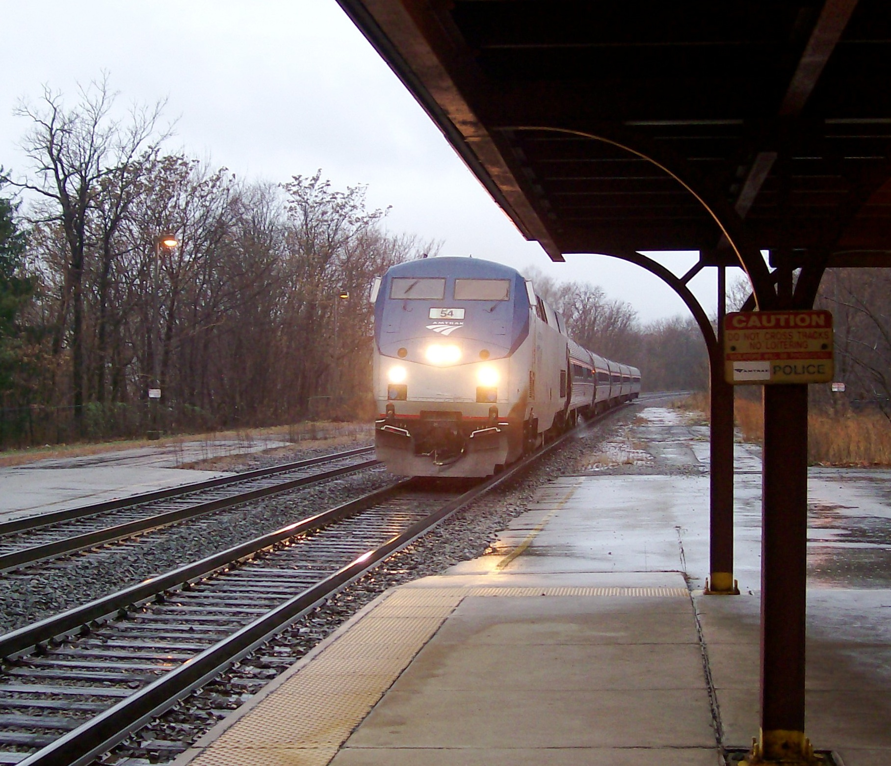 The Pennsylvanian arriving in Greensburgh, Pennsylvania.